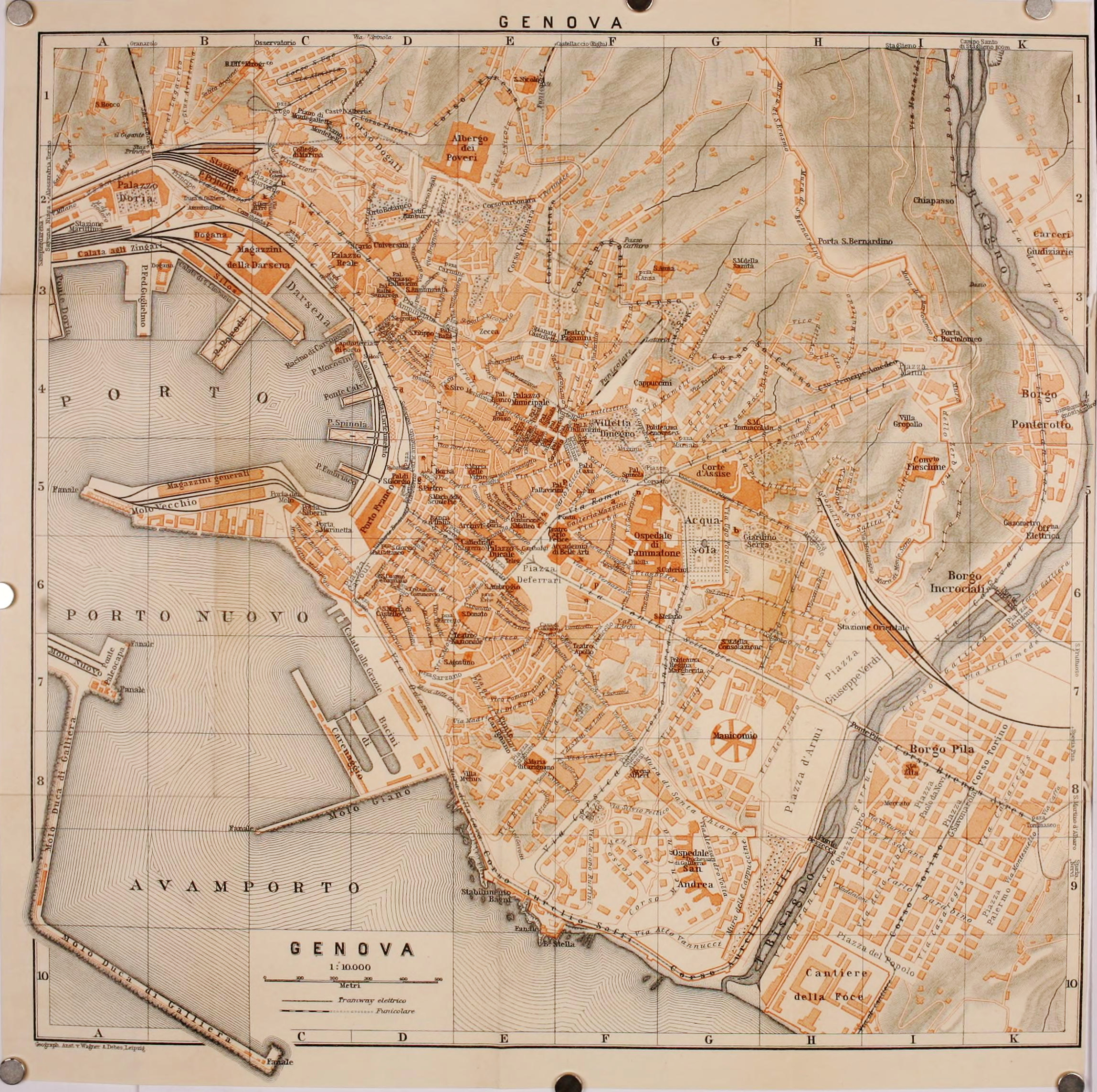 Map of Genoa, from Karl Baedeker (1801 - 1859), Italy handbook for travellers, vol I, 13ed, 1906, from